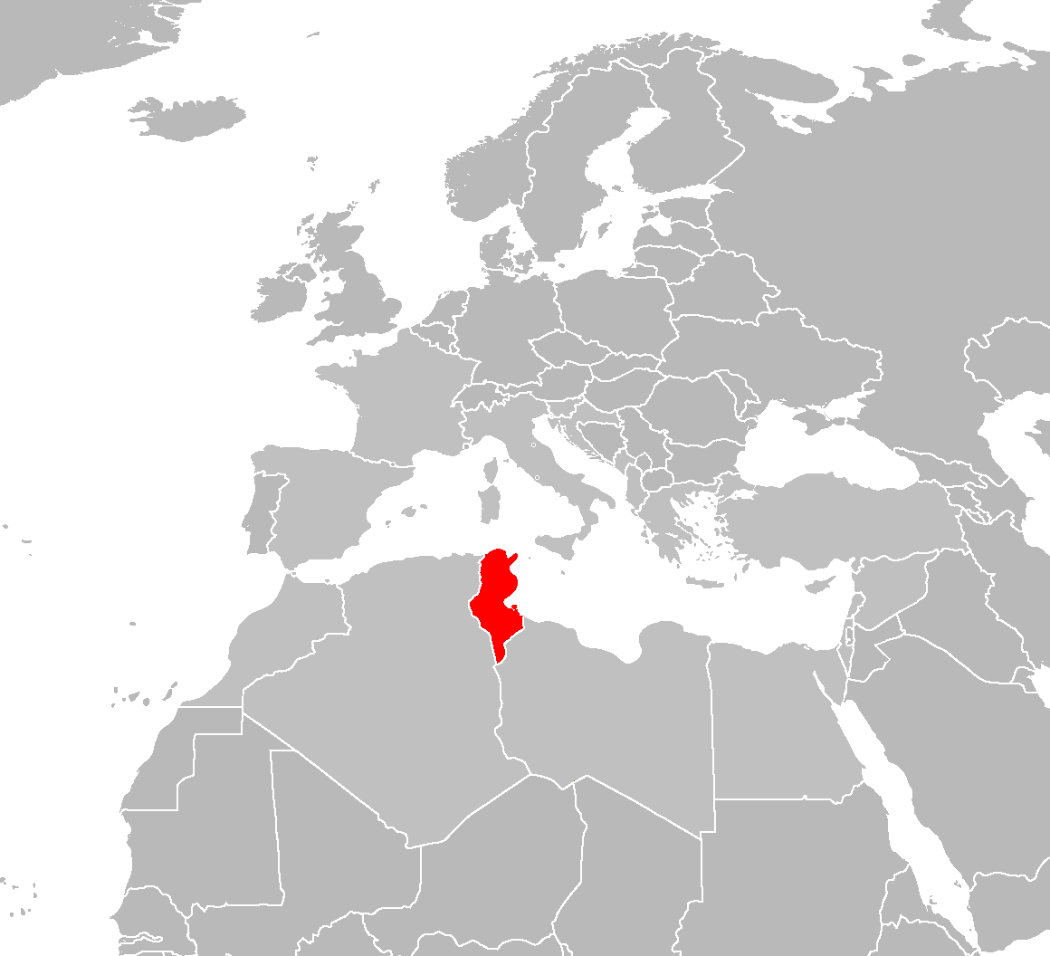 locator map for Tunisia